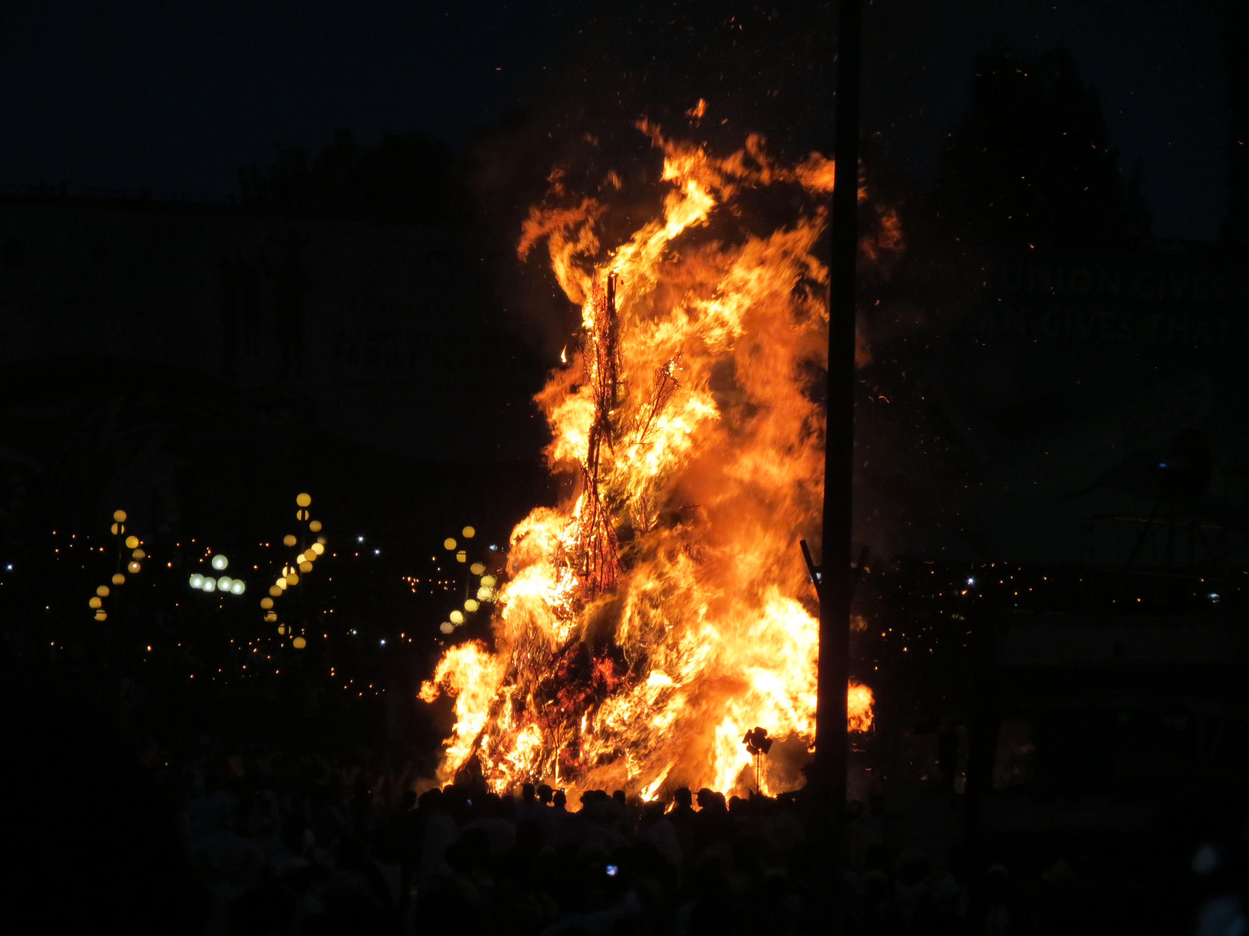 Demera engulfed in flames in Meskel Square, 2013-09-26